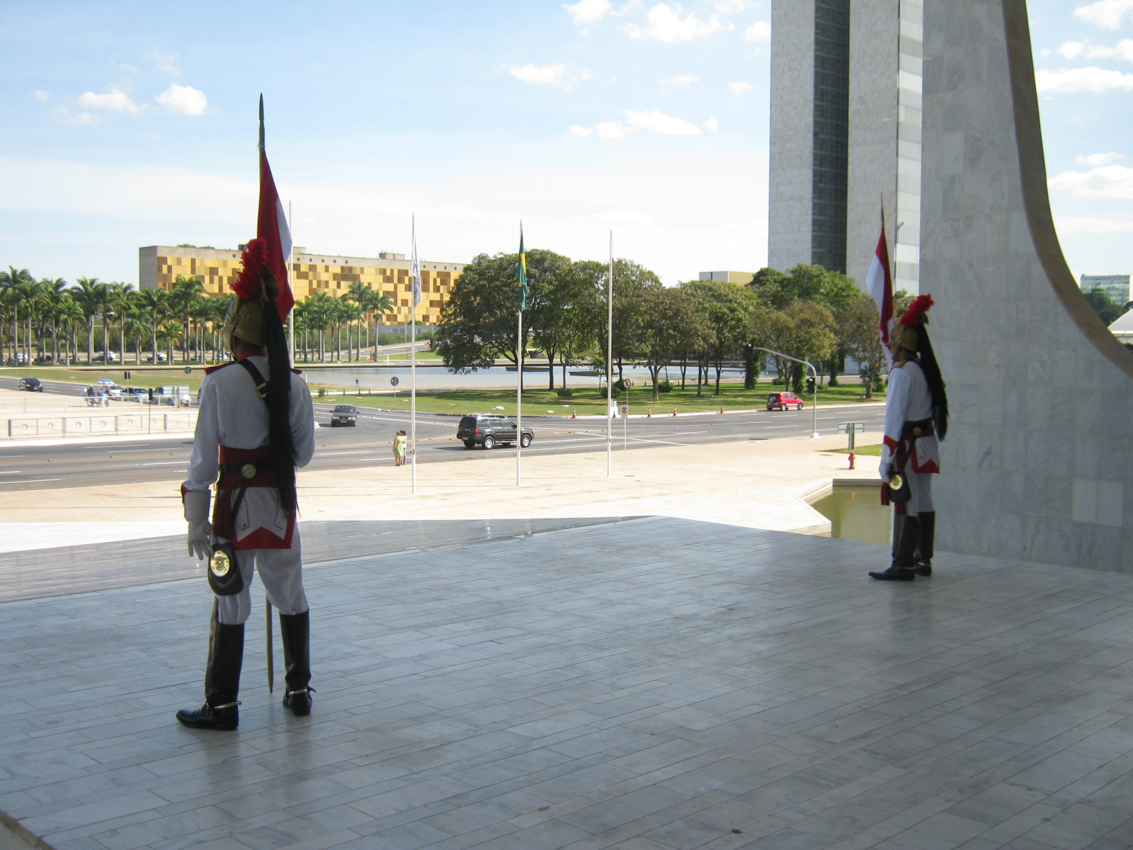 The Independence Dragoons stand guard outside the Palácio do Planalto, Brasília, Brazil.